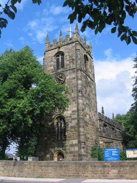 St Leonard's Parish Church. Shirland Seen here is the buttressed west tower of St Leonard's Church, along side the A61 north of alfreton. Parts of the Church date from 1220 but the majority of the existing Church is 15th Century. It is part of a Benefice with the Church of England churches in Stonebroom 221340 and Morton 230345.